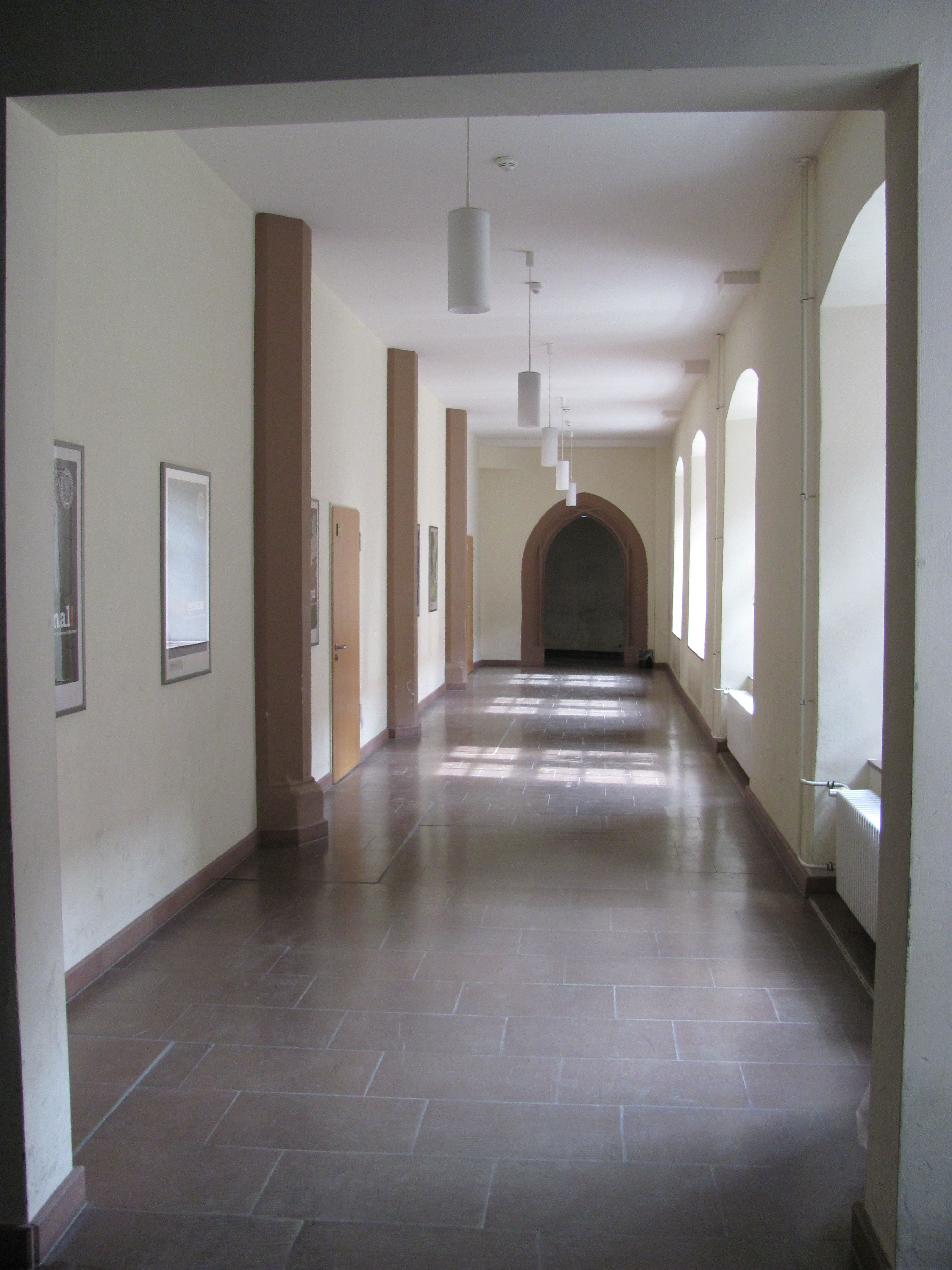 Schlüchtern Monastery, southern wing of cloister